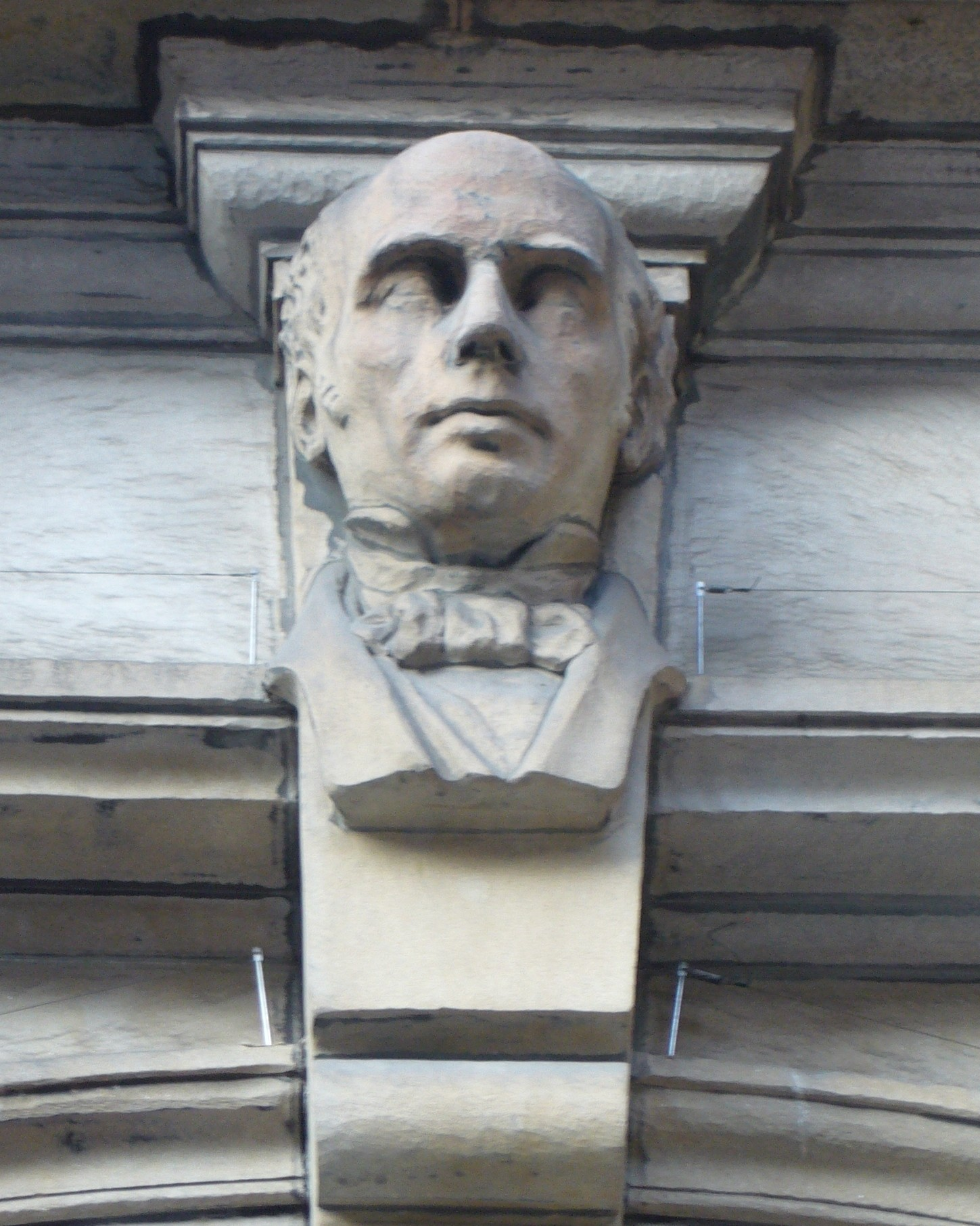 Head of George Combe on the former Museum of the Edinburgh Phrenological Society building, Edinburgh